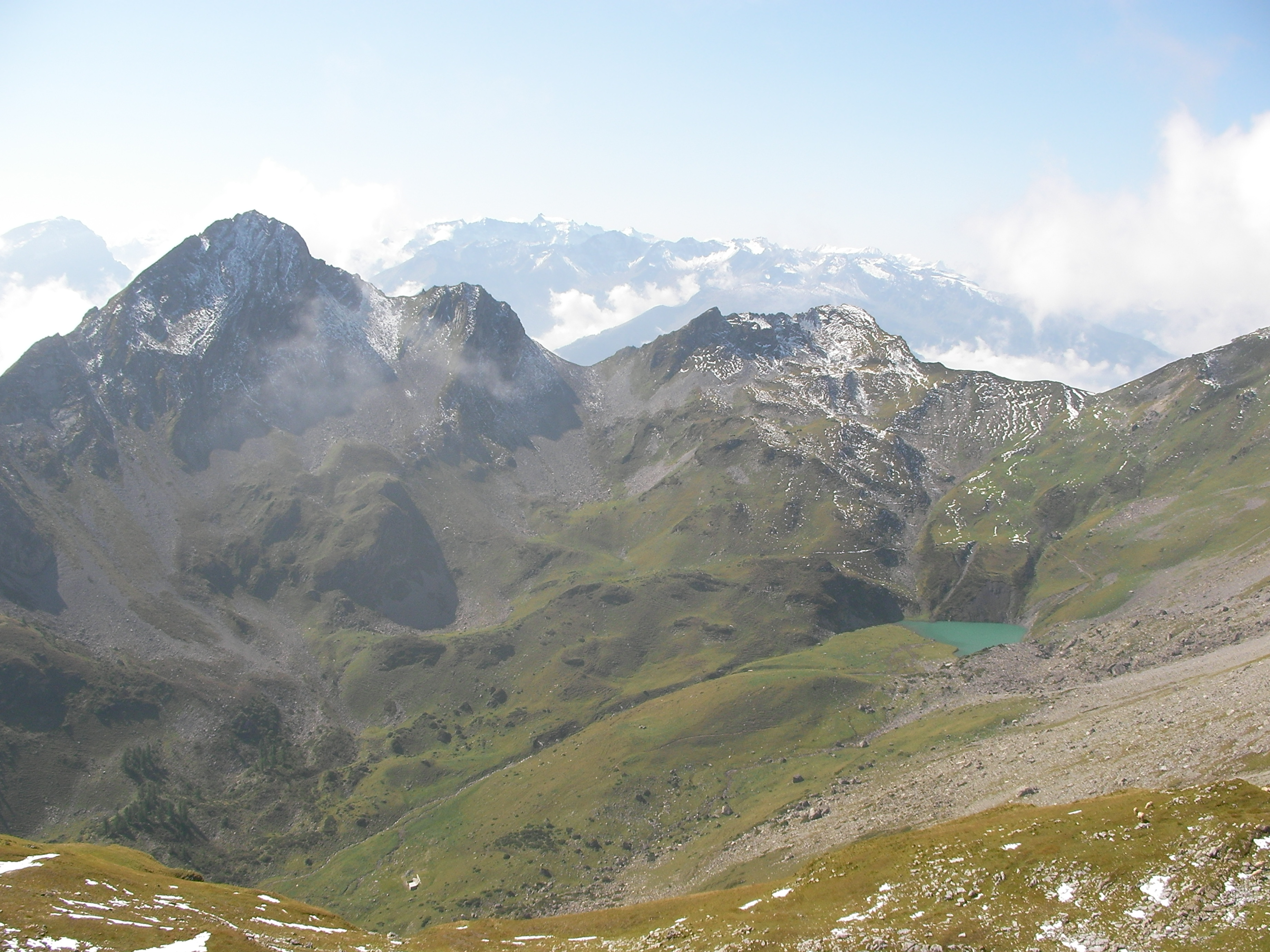 Glegghorn, Oberst See etc taken from the NE (in the Schafalpi area)